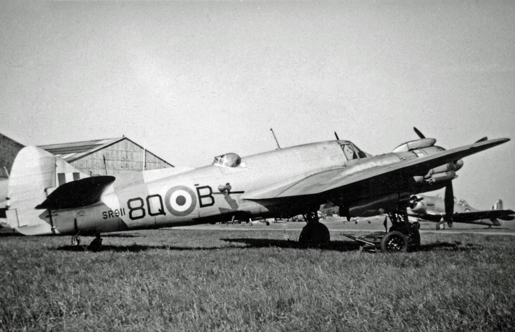 Bristol 156 Beaufighter TT.10 Target tug aircraft of 34 Squadron Royal Air Force at Cambridge Airport in June 1951